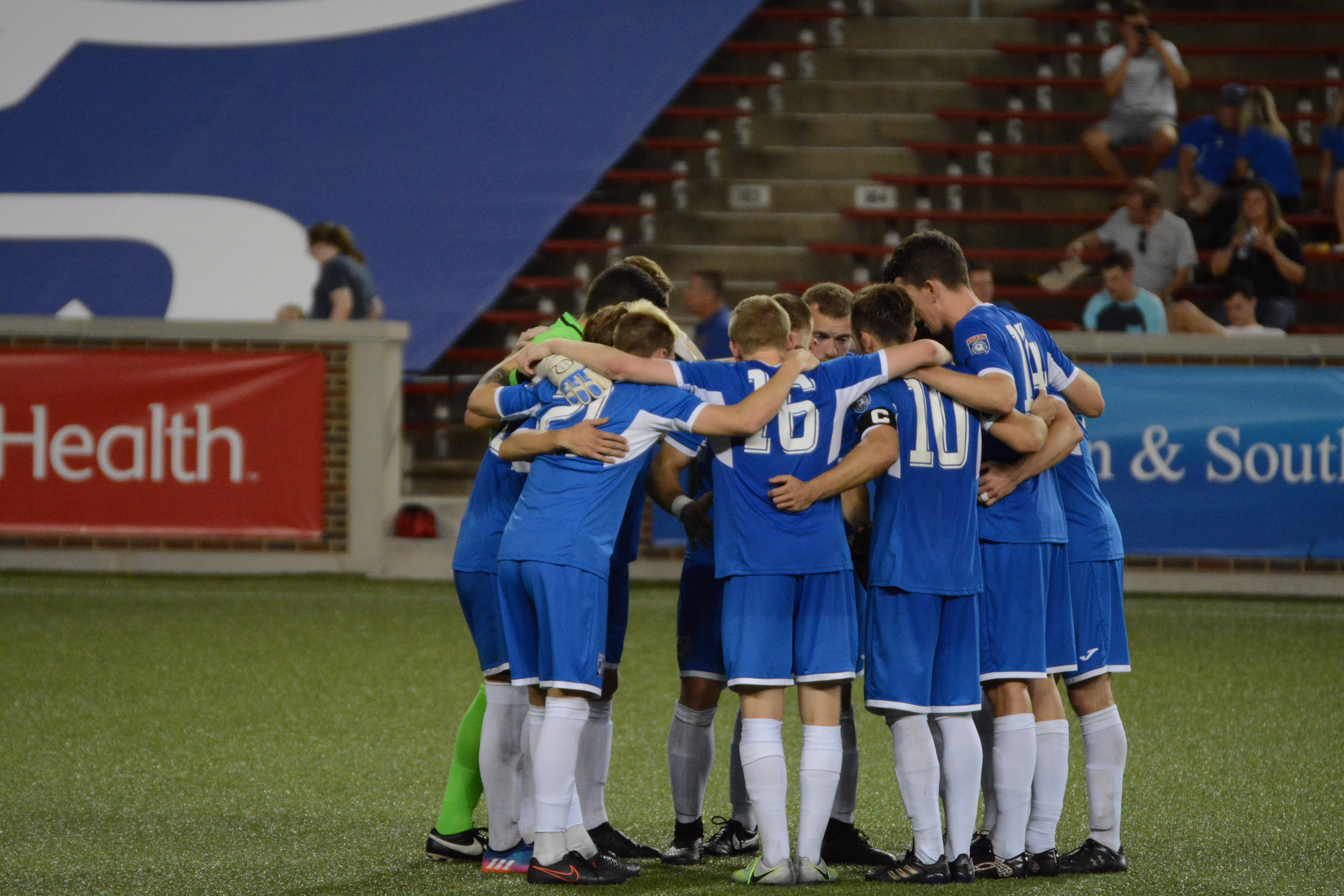 AFC Cleveland huddle Taken at a Lamar Hunt U.S. Open Cup match between FC Cincinnati and AFC Cleveland at Nippert Stadium in Cincinnati, Ohio on May 17, 2017.